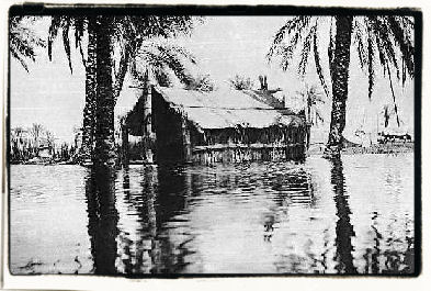 Mudhif (reed hut), photograph by Gertrude Bell dated 1918 or 1920.